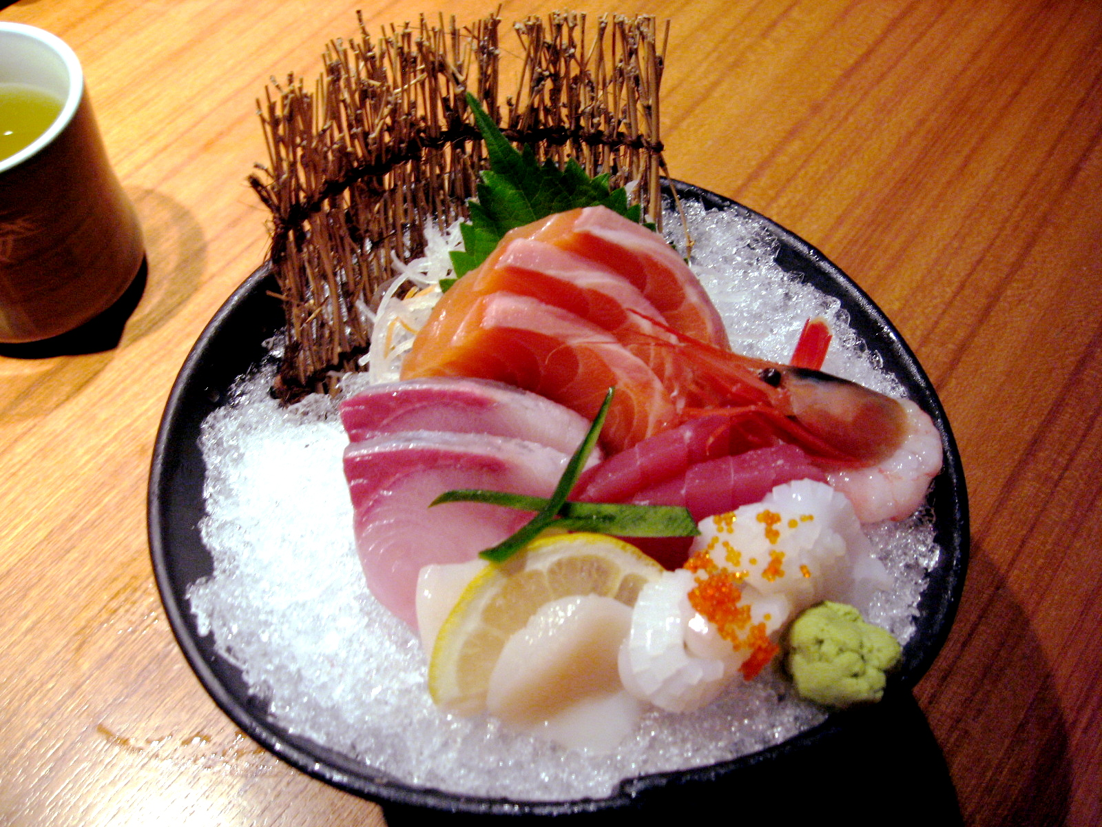 Sashimi Moriawase.